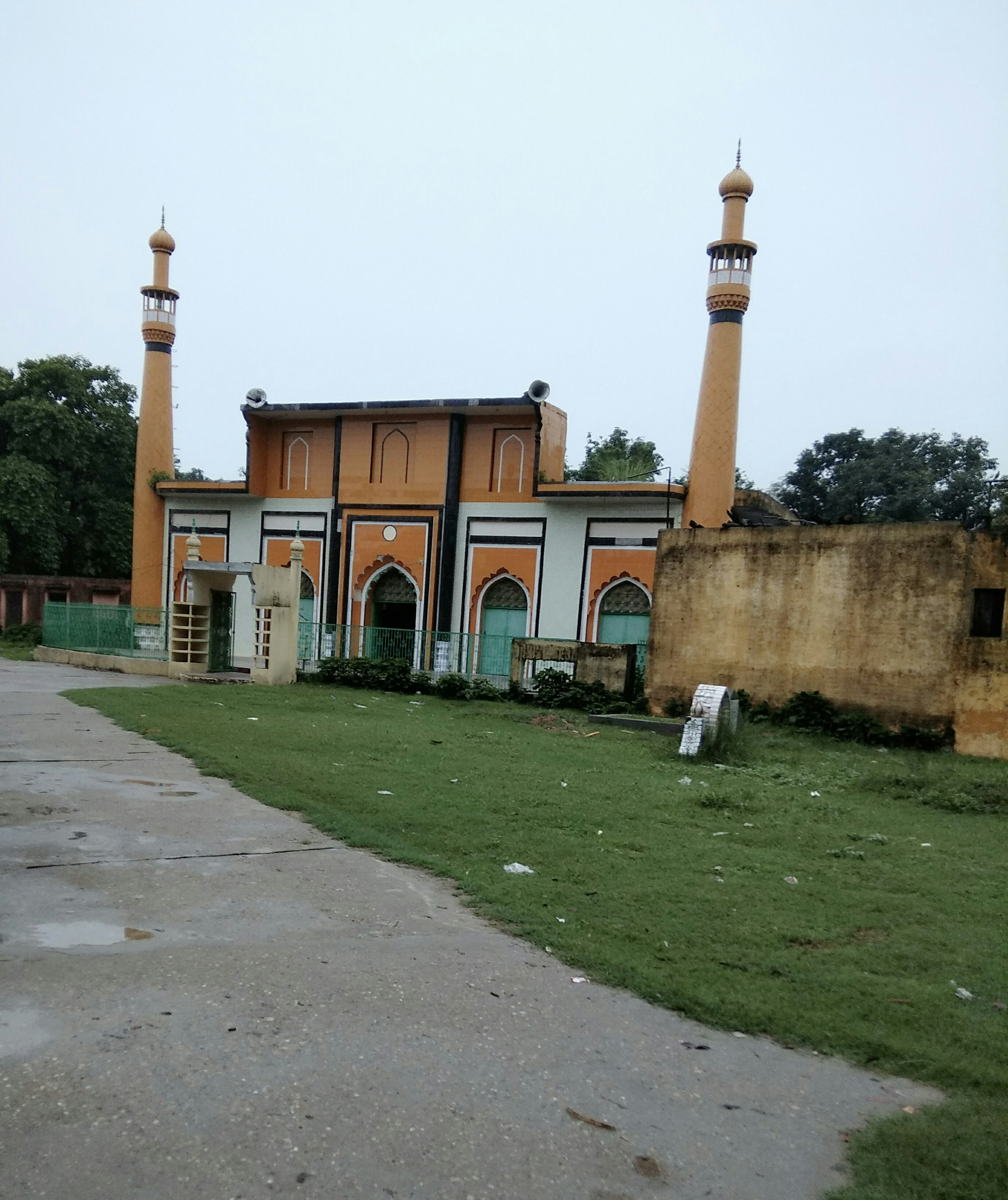 masjid zehra sa.